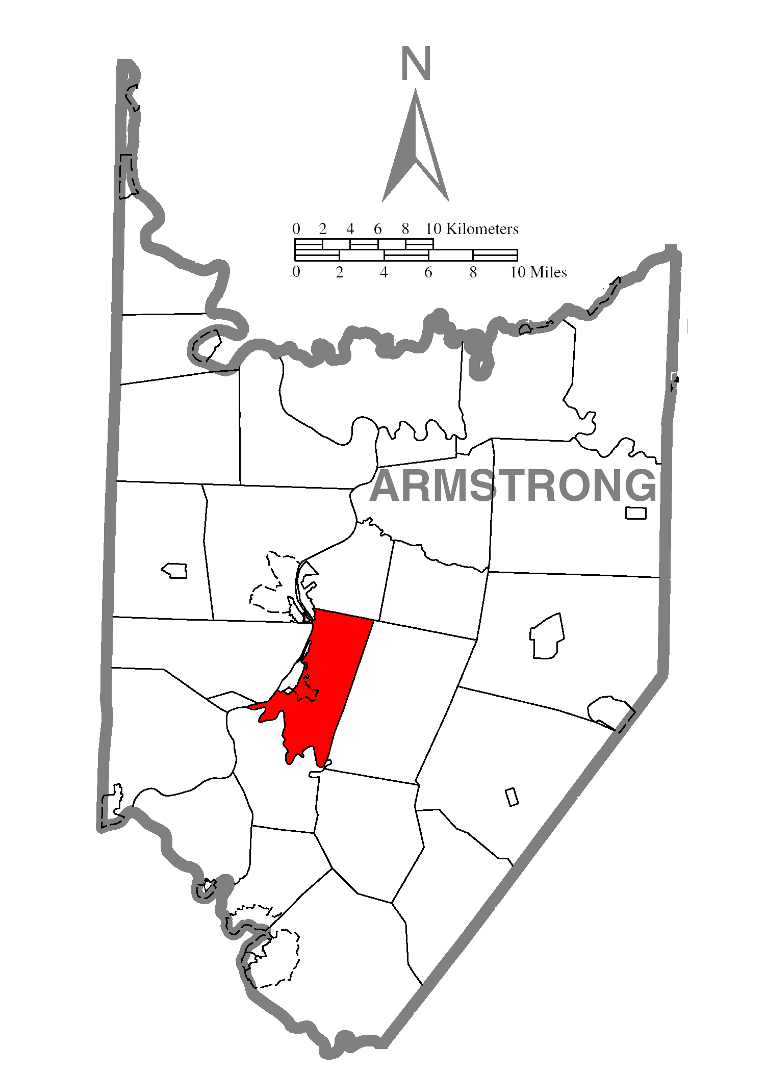 A map of Armstrong County showing Manor Township, Pennsylvania (alternate) highlighted on the map.